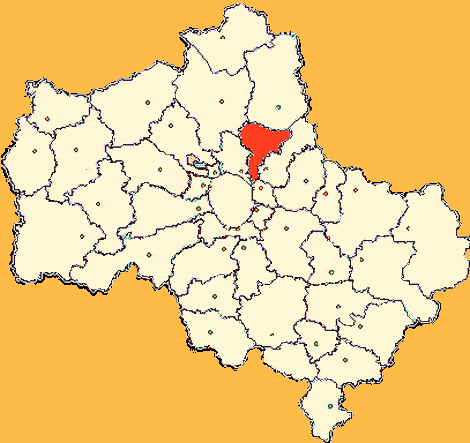 Moscow Region map by Al Silonov